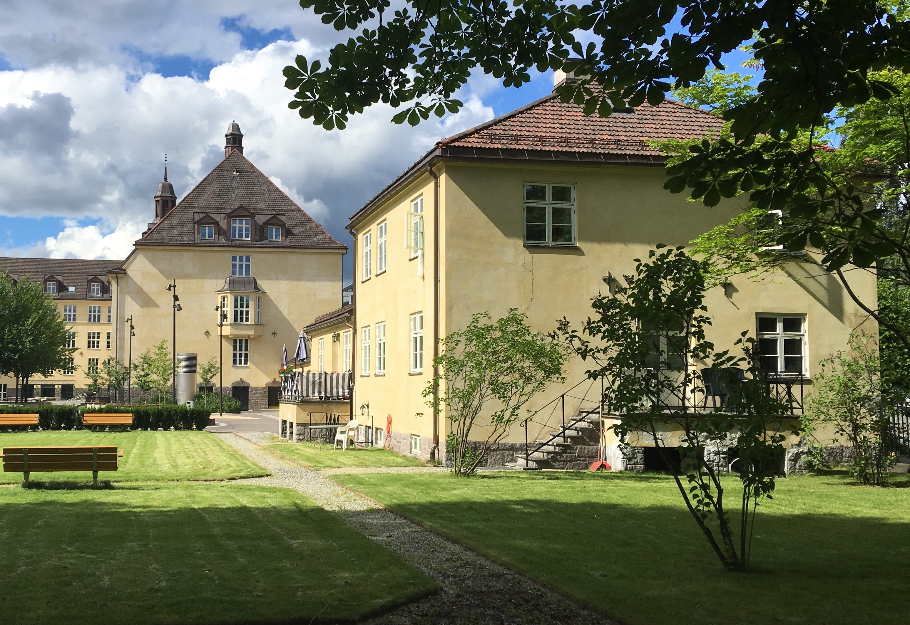 Hersleb skole, a school in central-eastern Oslo, Norway